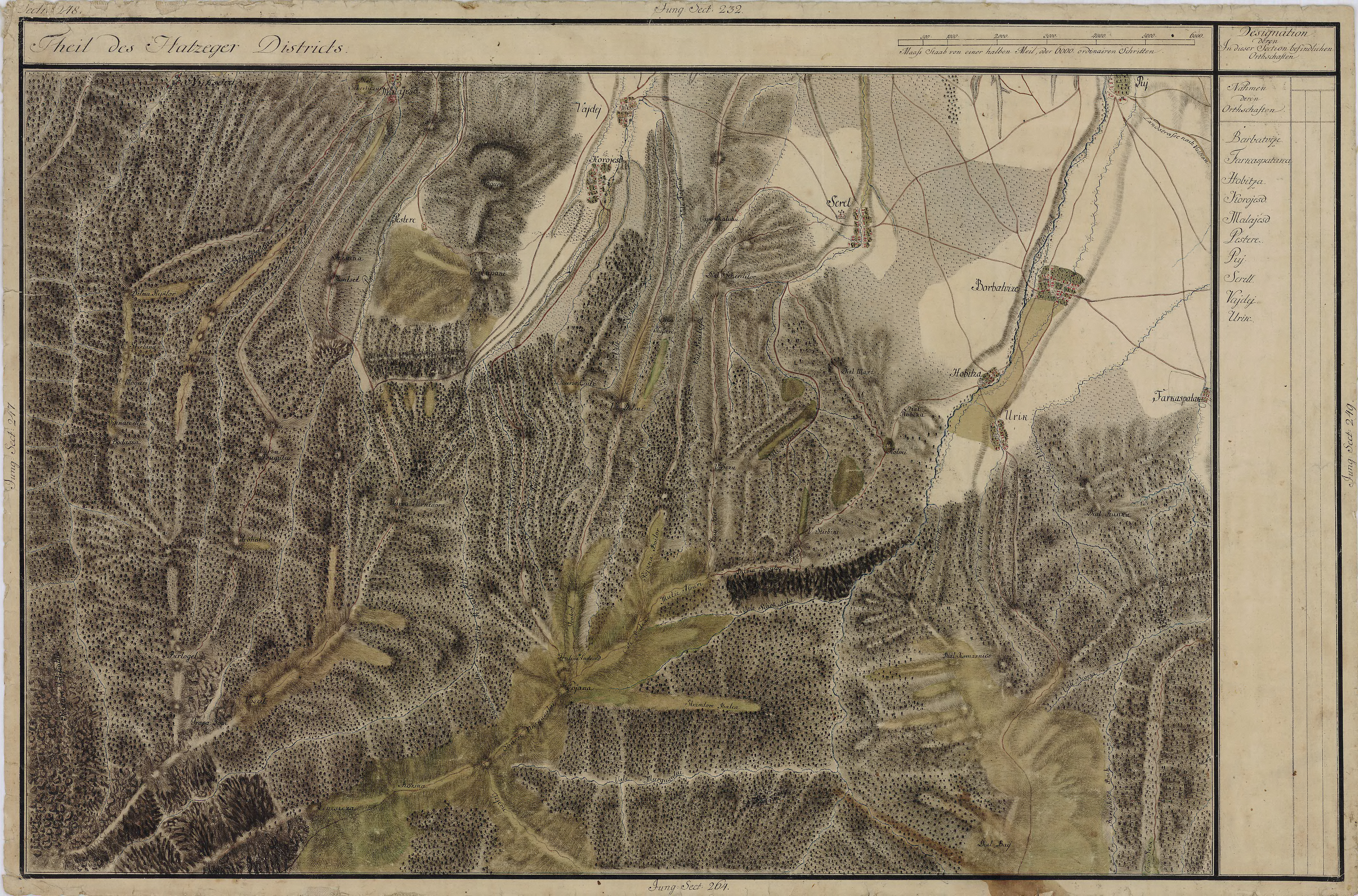 Grand Duchy of Transylvania, 1769-1773. Josephinische Landaufnahme pg.248